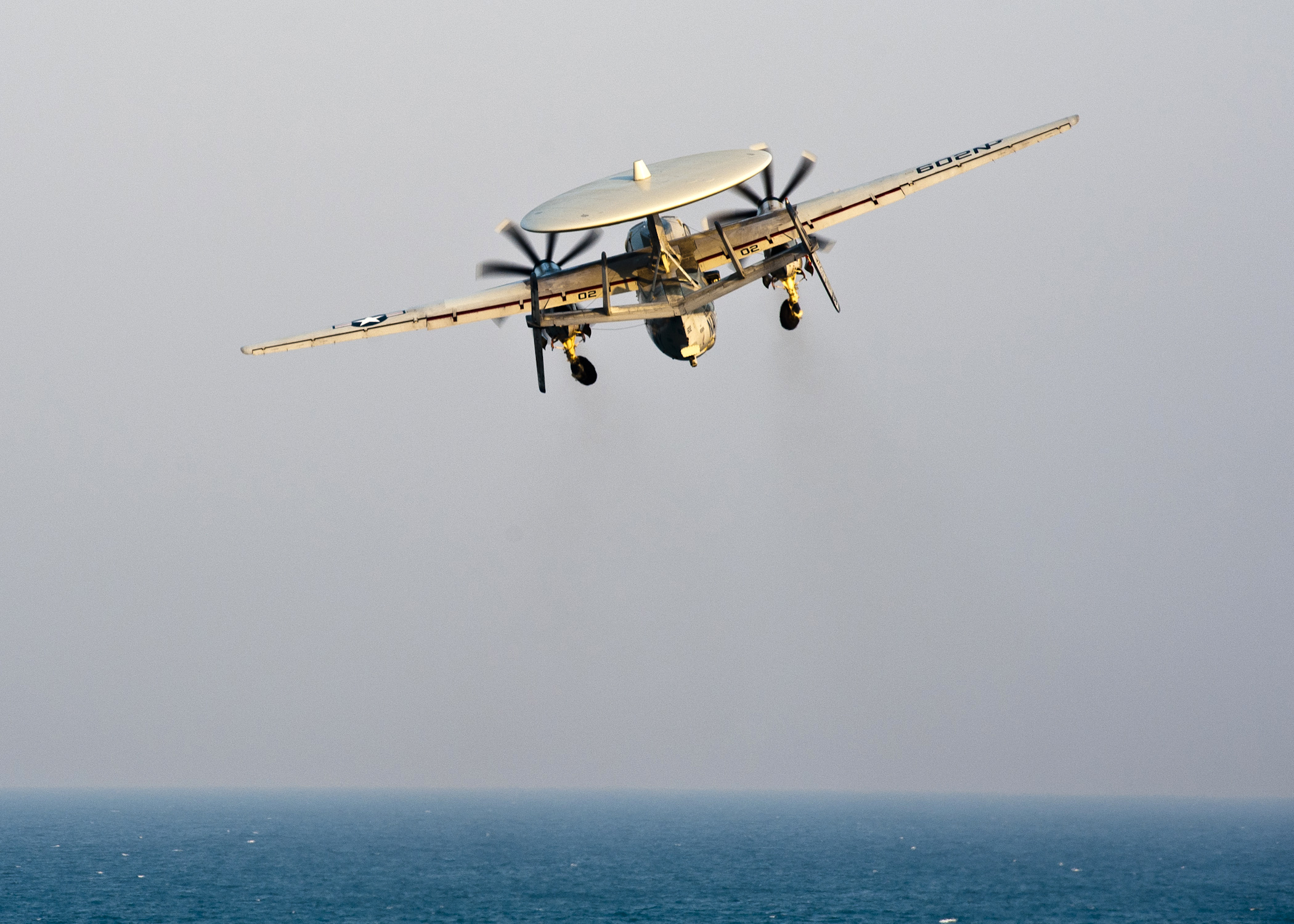 ARABIAN GULF (Dec. 18, 2011) An E-2C Hawkeye from the Golden Hawks of Airborne Early Warning Squadron (VAW) 112 launches from the Nimitz-class aircraft carrier USS John C. Stennis (CVN 74). John C. Stennis is deployed to the U.S. 5th Fleet area of responsibility conducting maritime security operations and support missions as part of Operations Enduring Freedom and New Dawn. (U.S. Navy photo by Mass Communication Specialist 3rd Class Benjamin Crossley/Released)